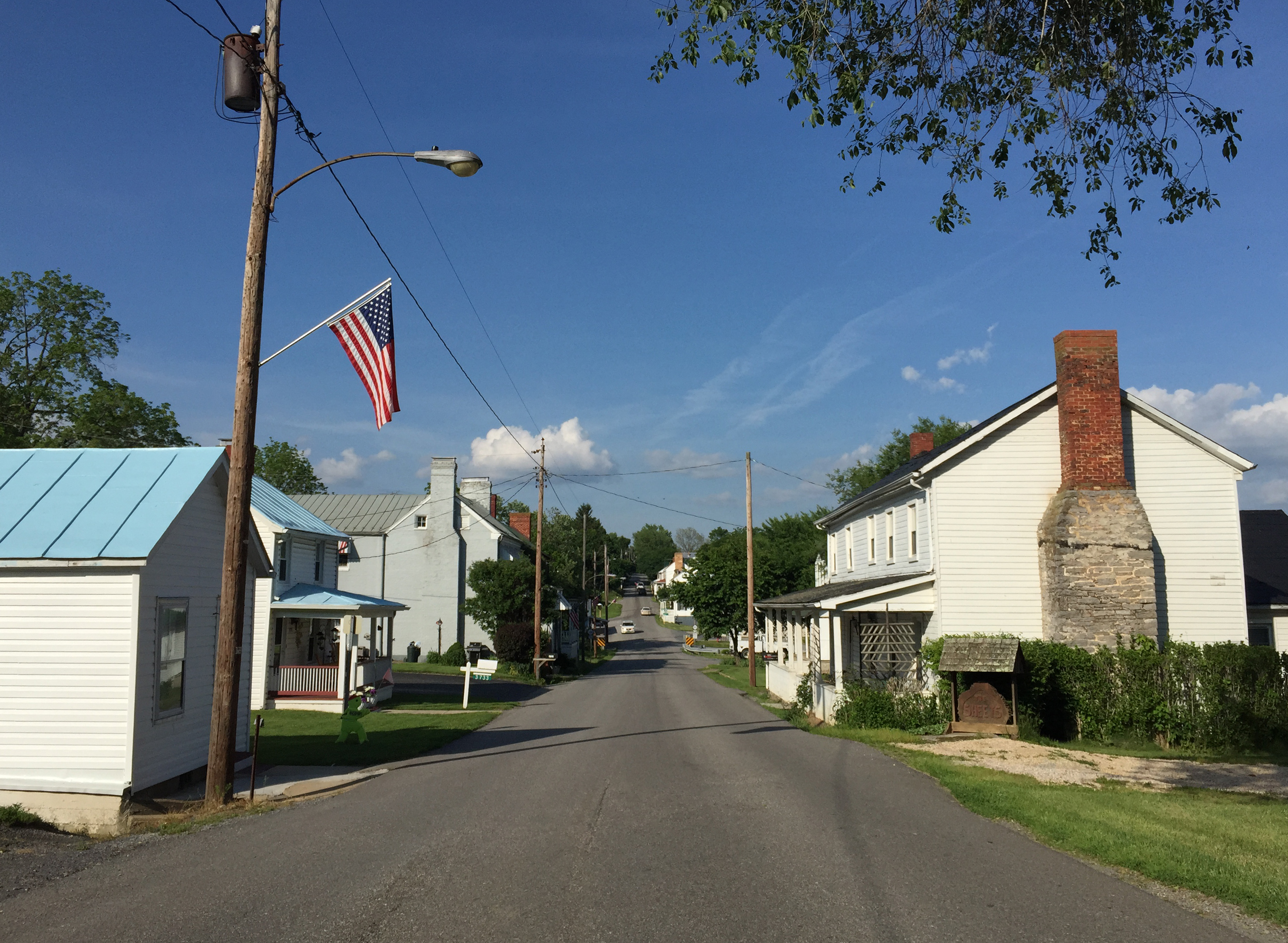 View north along Virginia State Route 252 (Middlebrook Village Road) near Virginia State Secondary Route 670 (Cherry Grove Road) in Middlebrook, Augusta County, Virginia